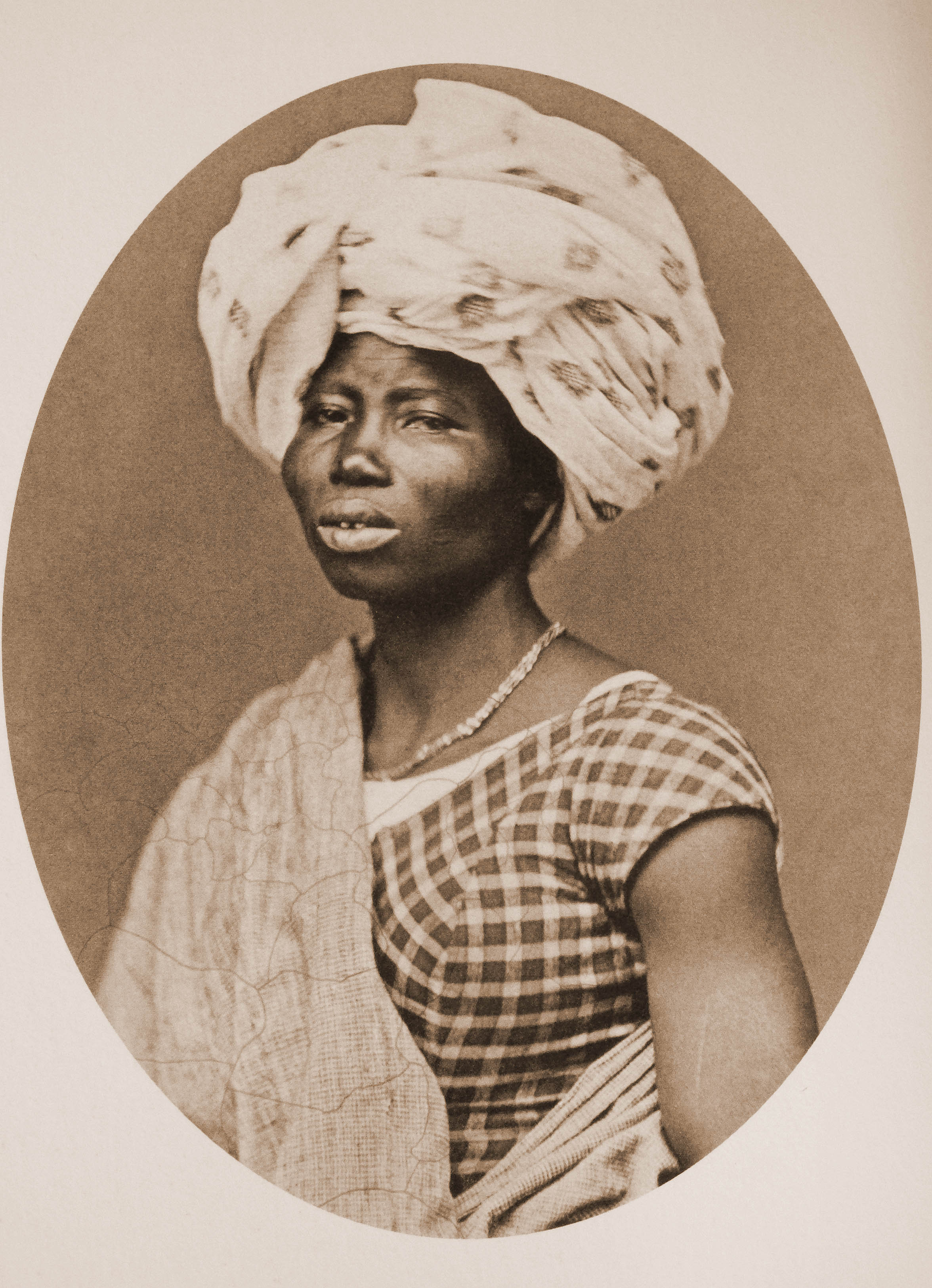 Racial type por­trait, iden­ti­fied as Mina Ige­ichà, by Augusto Stahl, Rio de Janeiro, 1865, cour­tesy of the Peabody Museum of Archae­ol­ogy and Eth­nol­ogy, Har­vard University.